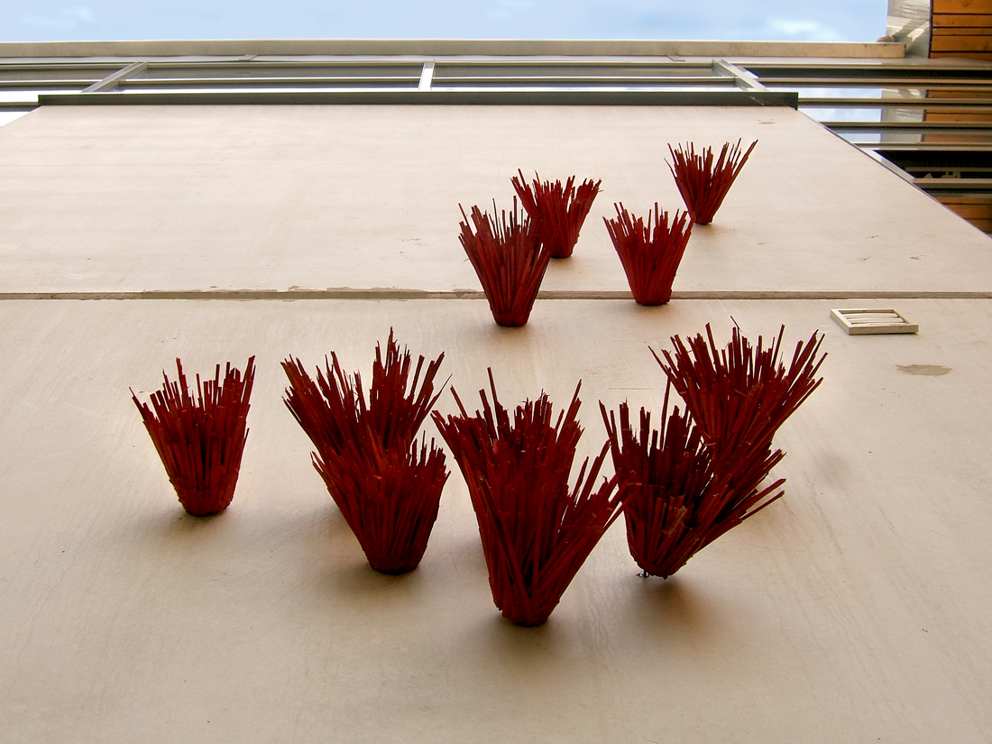 sculpture in Schorndorf, Germany